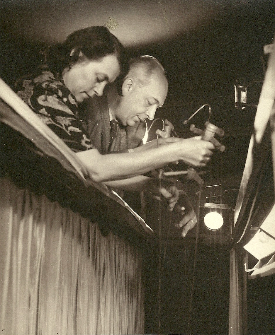 Josef Skupa and his wife performing together